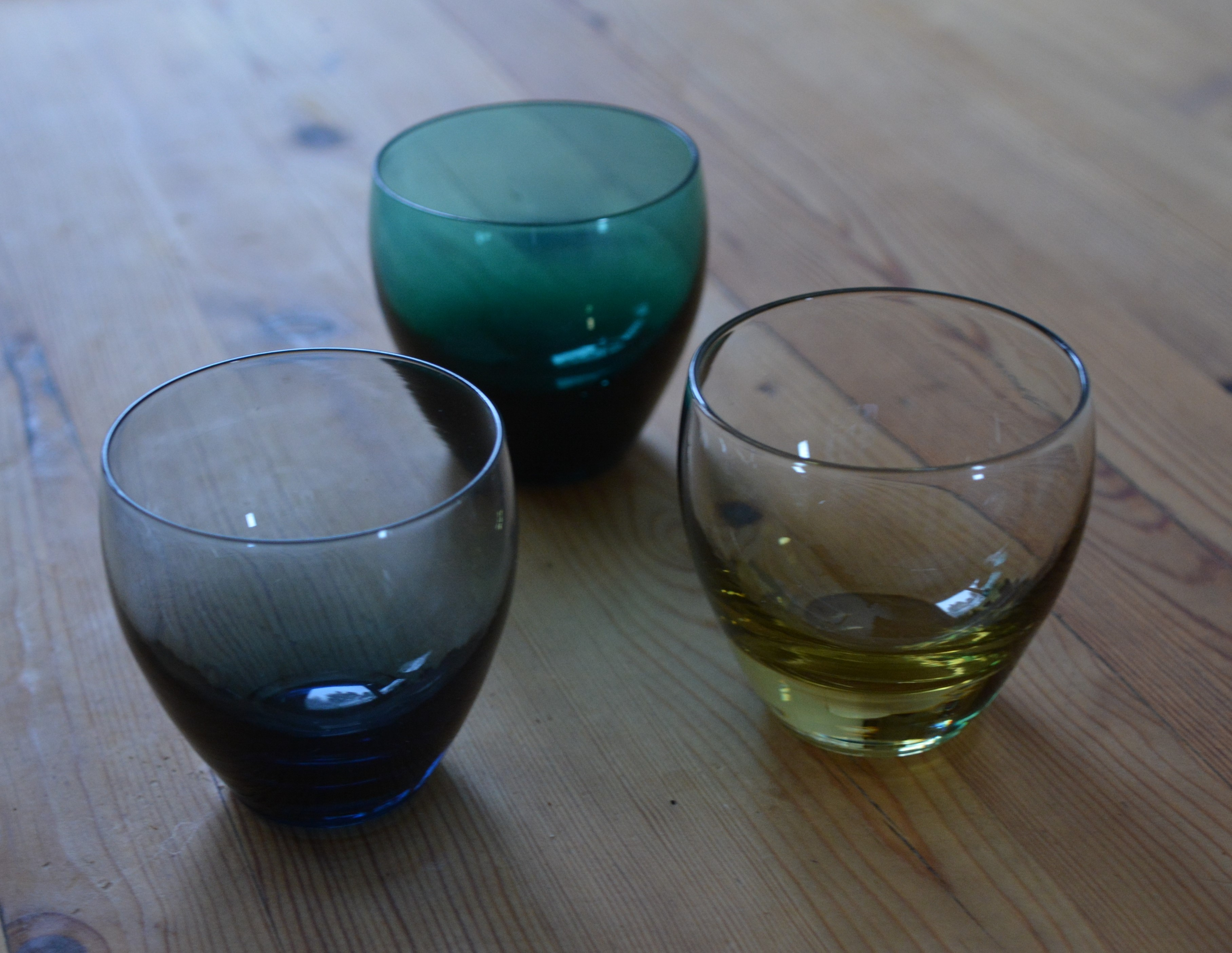 Glas från Ekenässjöns glasbruk